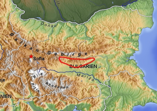 location of Pirin mountain in Bulgaria